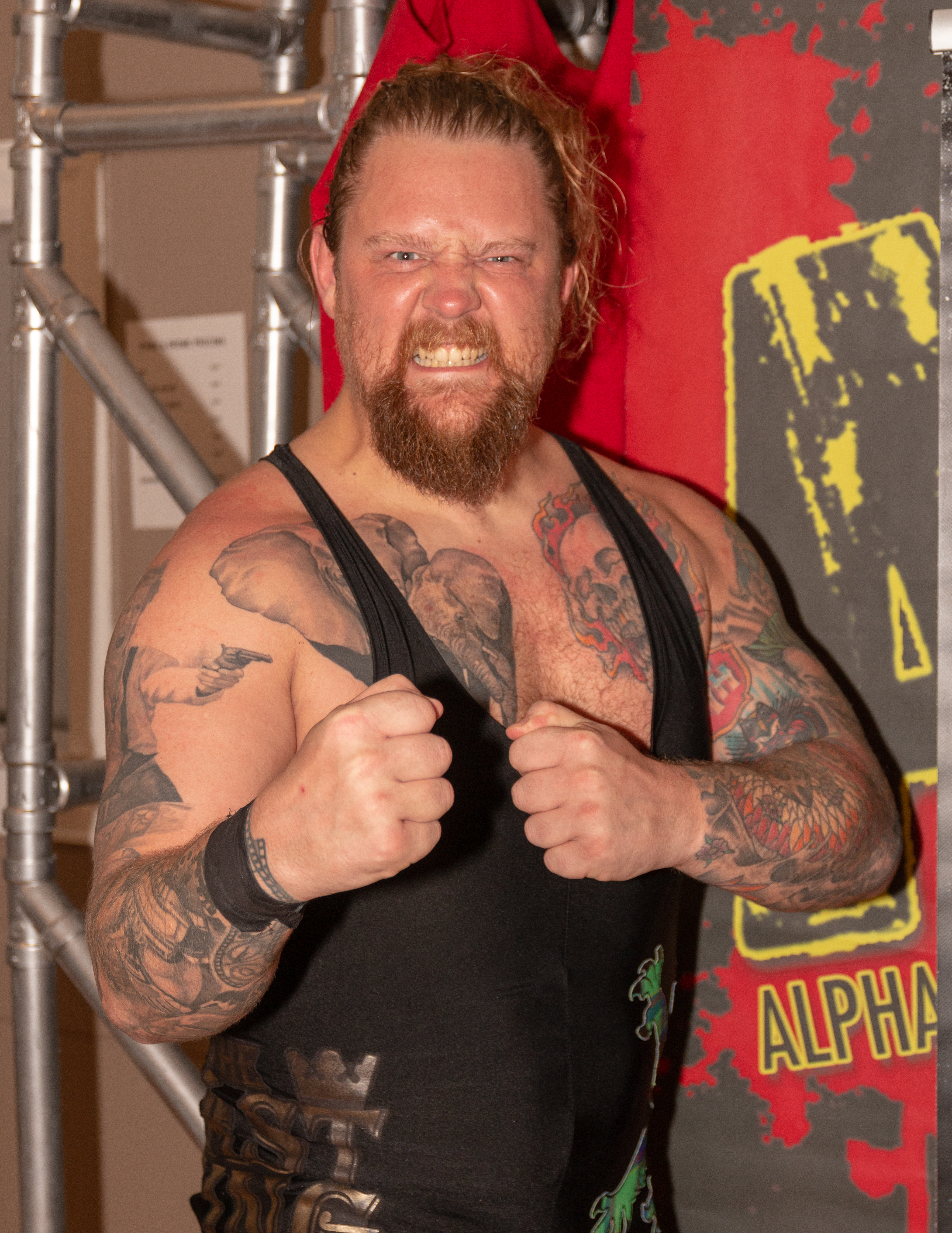 WWE NXT:UK wrestler Wolfgang posing post-match at an Alpha-1 Wrestling show in Oshawa, ON